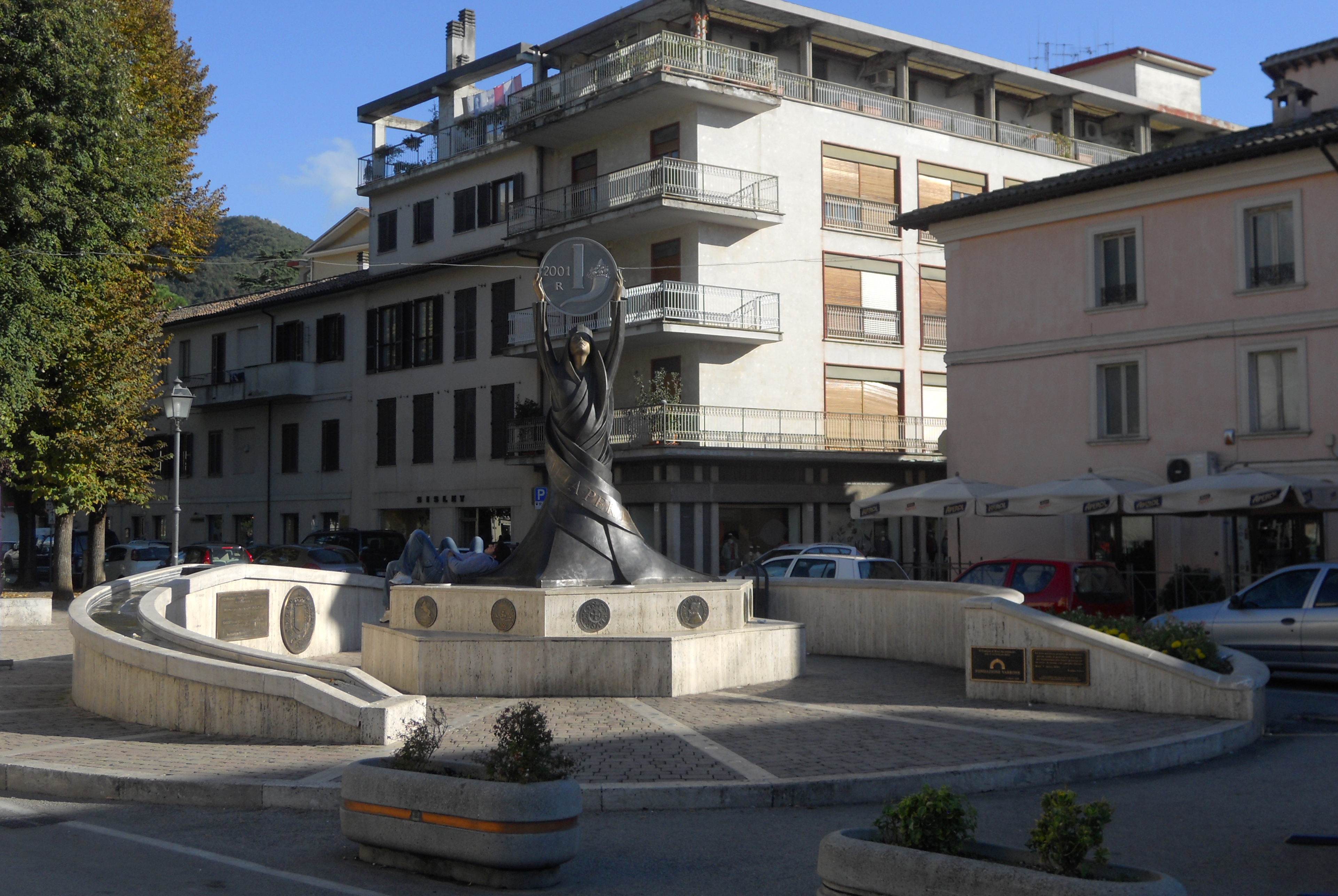 The Monument to Lira in Rieti (Lazio, Italy)